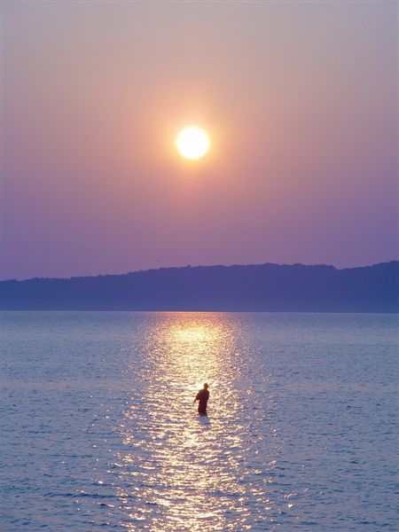 Sunset, East Bay of Grand Traverse Bay, Illinois fisherman